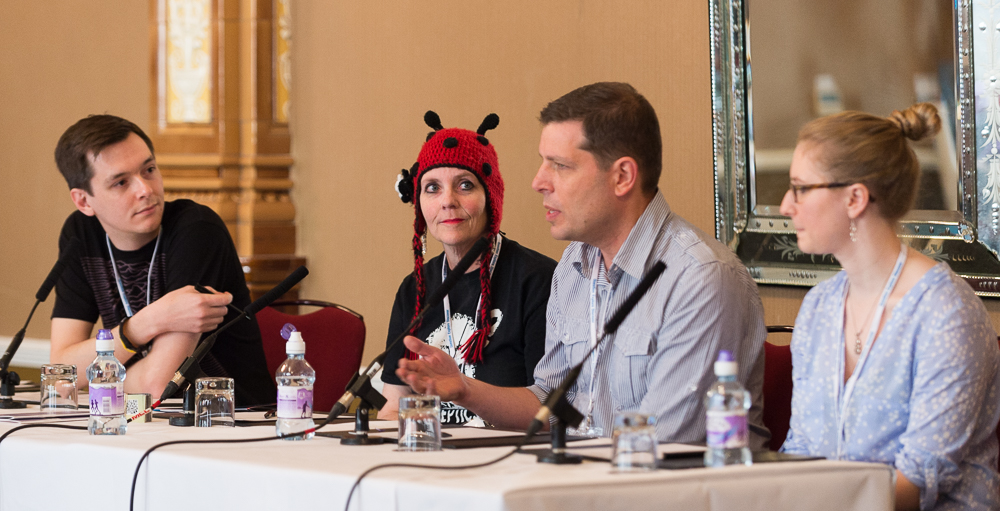 Susan Gerbic on the Engaging Believers panel with (L-R) Michael Marshall, Eran Segev and Samantha Stein.